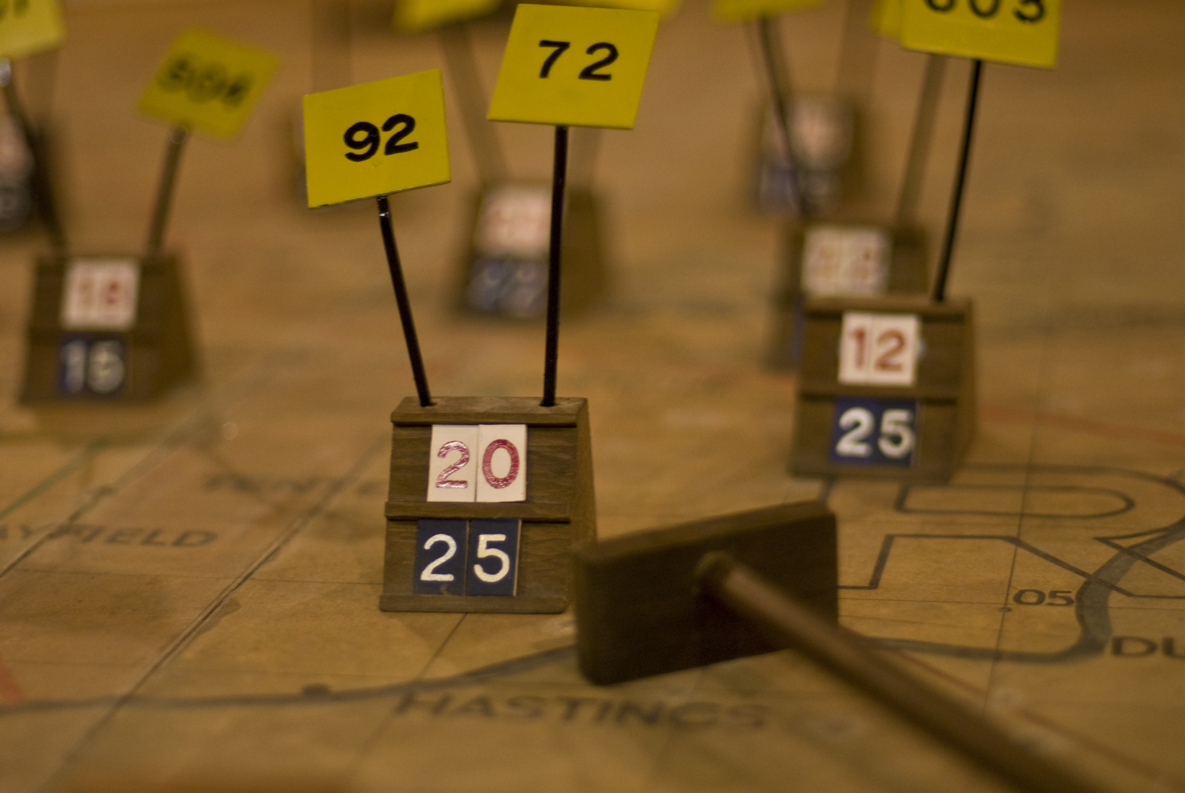 Allied Defence Plot